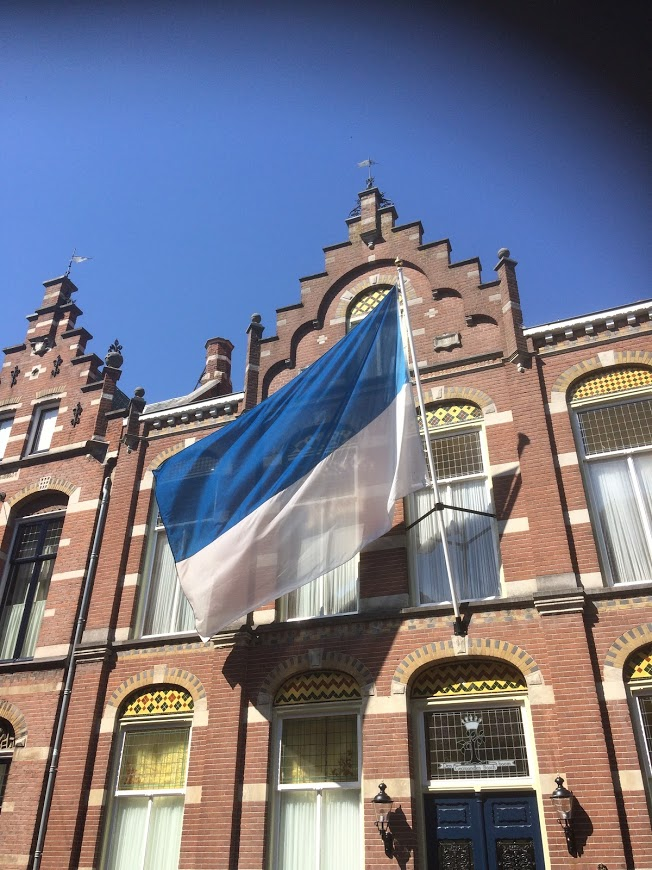 Meimaandvlag Bossche binnenstad